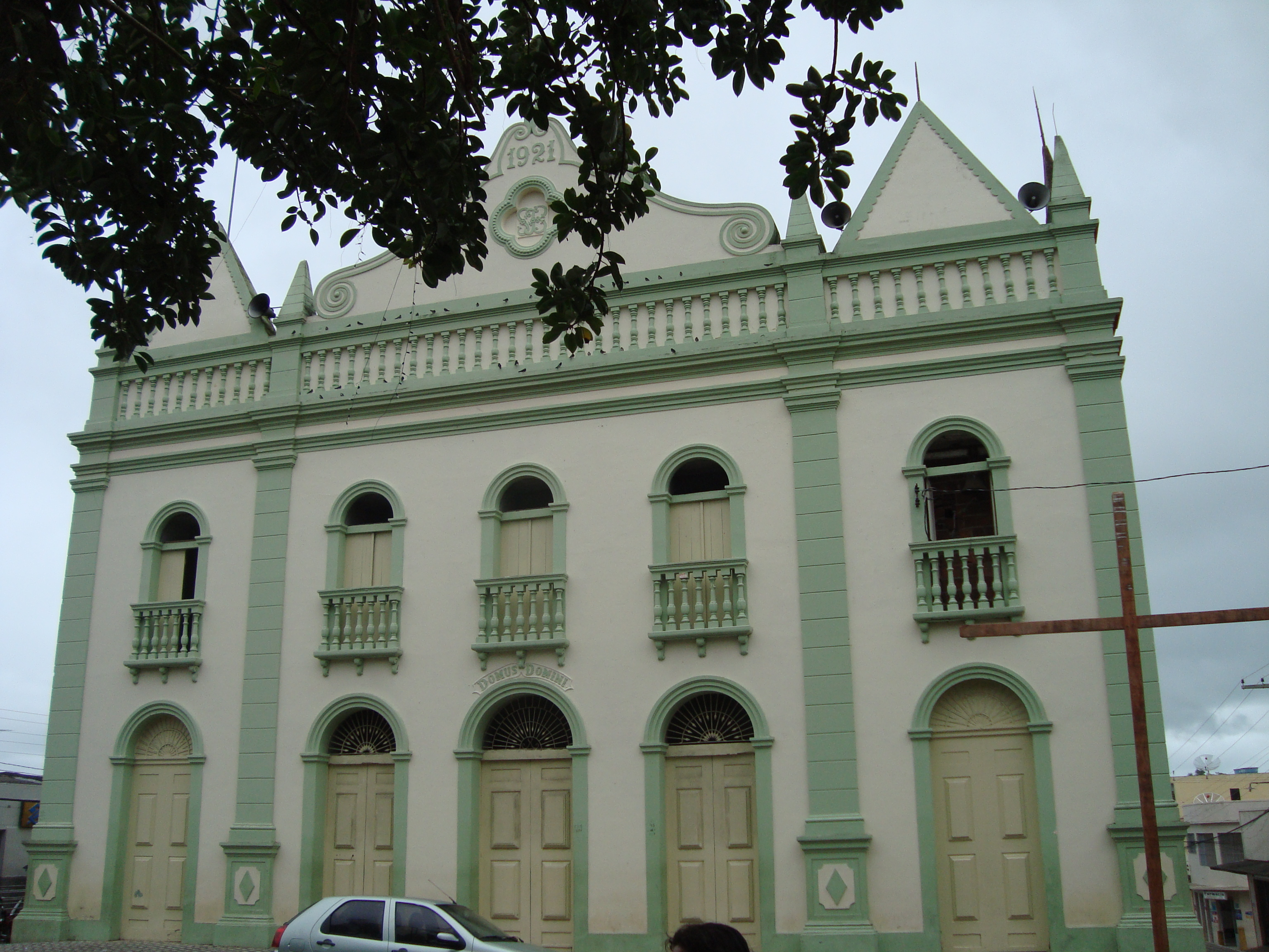 Igreja de Fagundes-PB